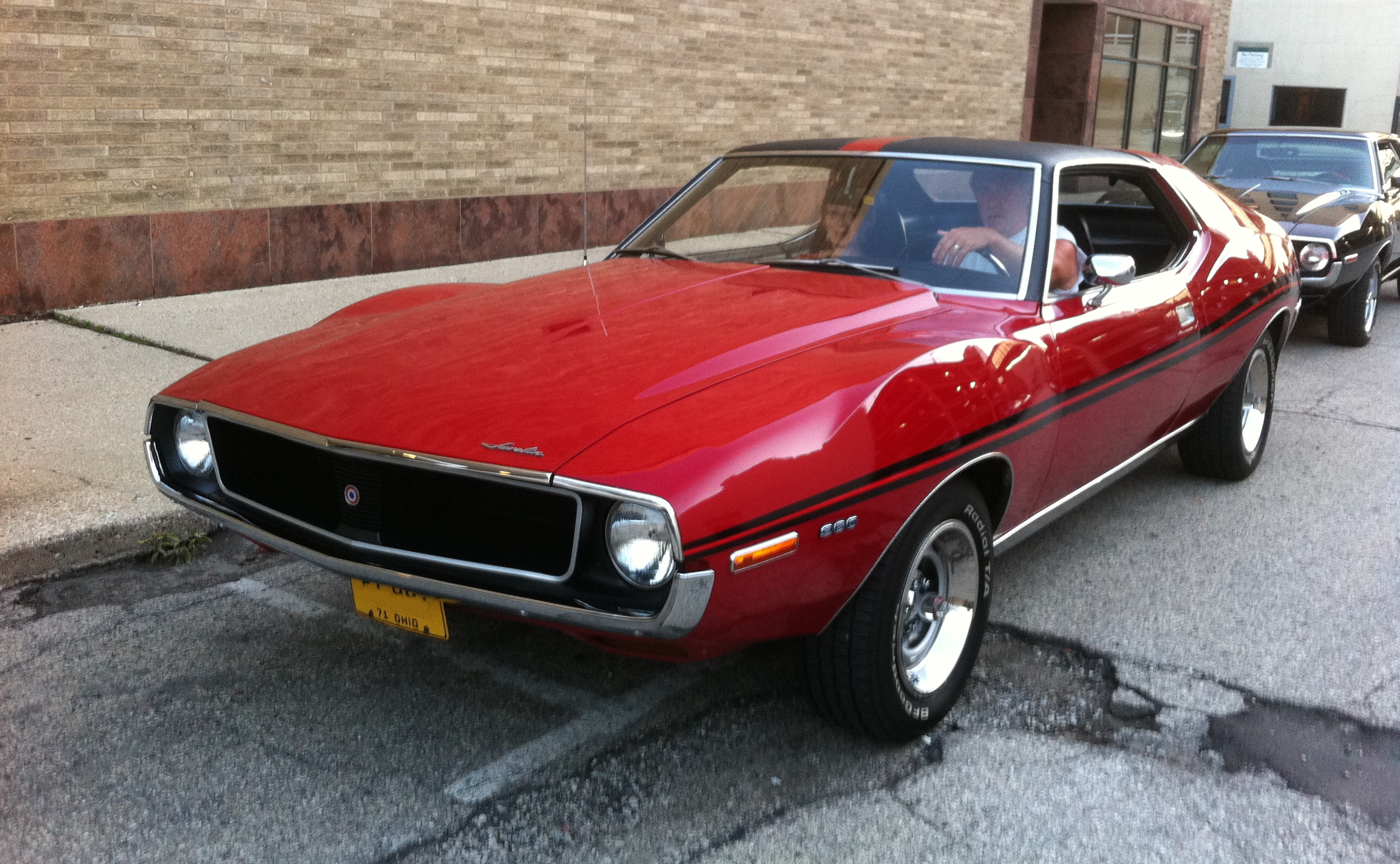 1971 AMC (American Motors Corporation) Javelin SST - front view - photograph taken in Kenosha, Wisconsin. This car came with 360 cu. in. (5.9 L) V8 engine with optional vinyl roof cover and body side stripes.